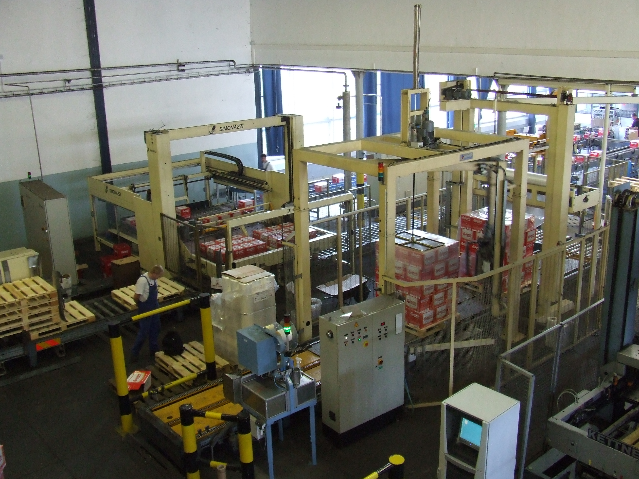 Tour of Budějovický Budvar (Budweiser Budvar) brewery in České Budějovice, Czech Republic.